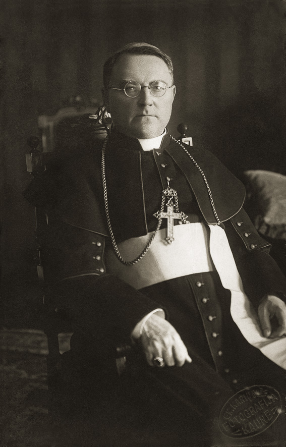 Justinas Staugaitis. One of the signatories of Lithuanian independence act.